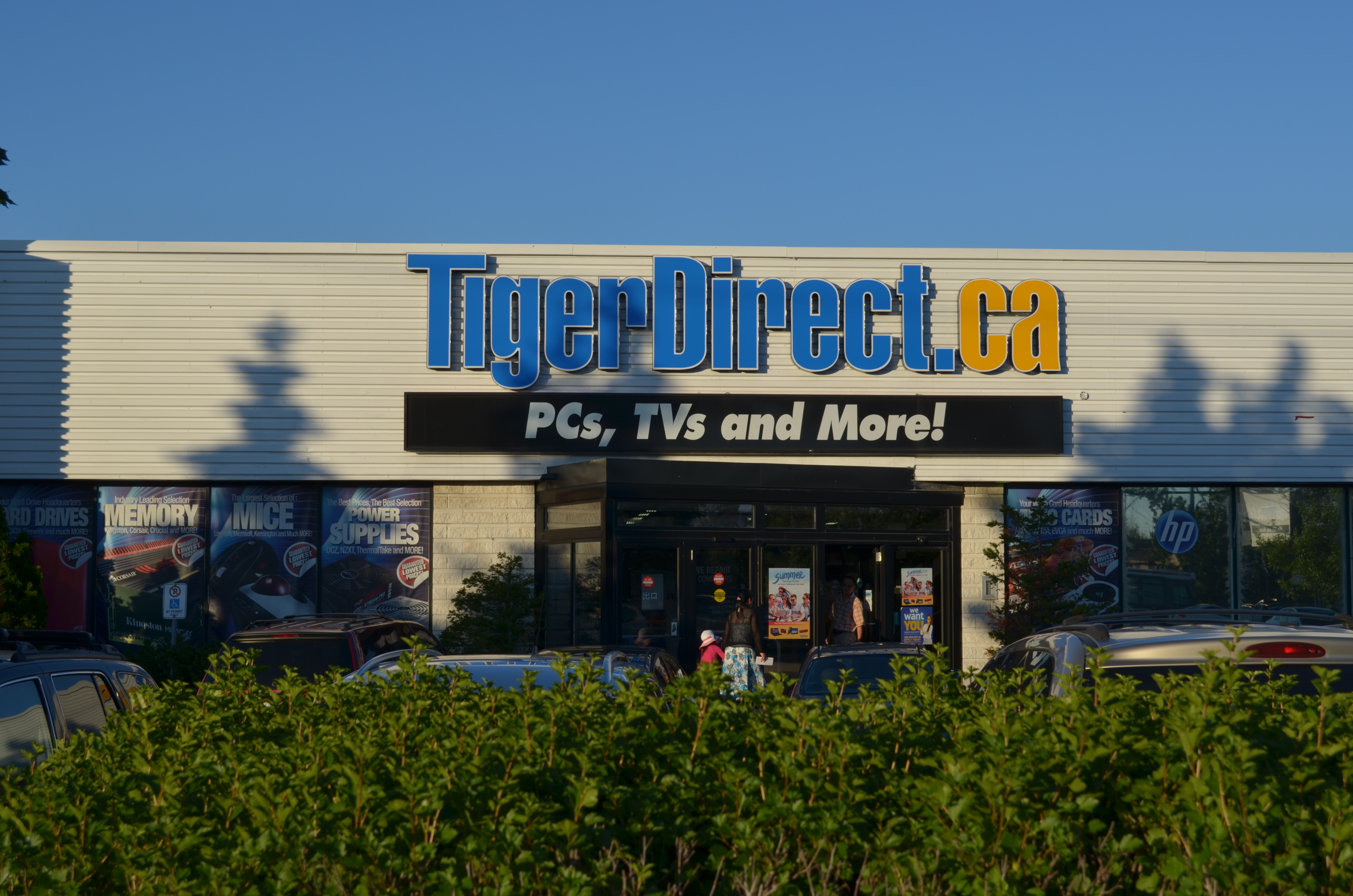 TigerDirect Canada in Markham